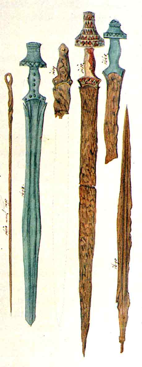 Drawing of Hallstatt culture swords found in Hallstatt